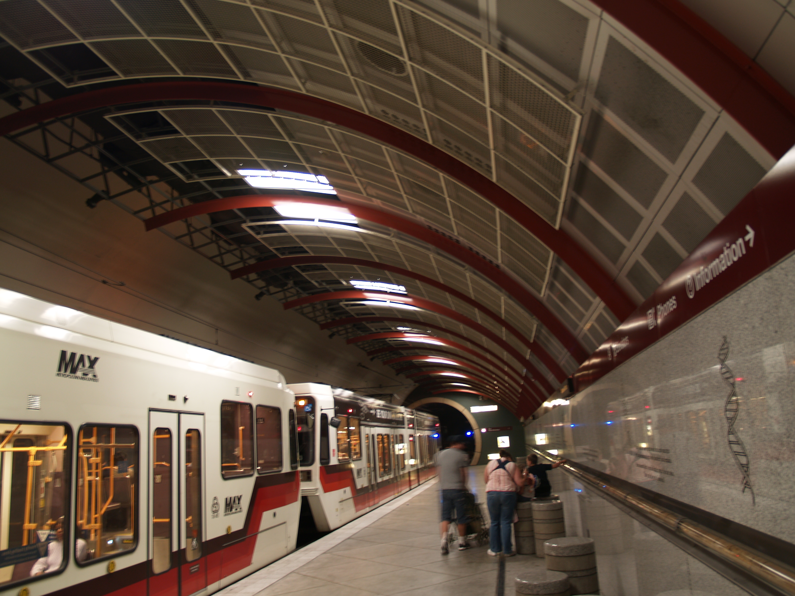 This is the Robertson Tunnel stop on the Portland MAX rail line. Not only is it the only true "sub"way stop on the line (the only one underground), it happens to be the 2nd-deepest train station anywhere on earth!